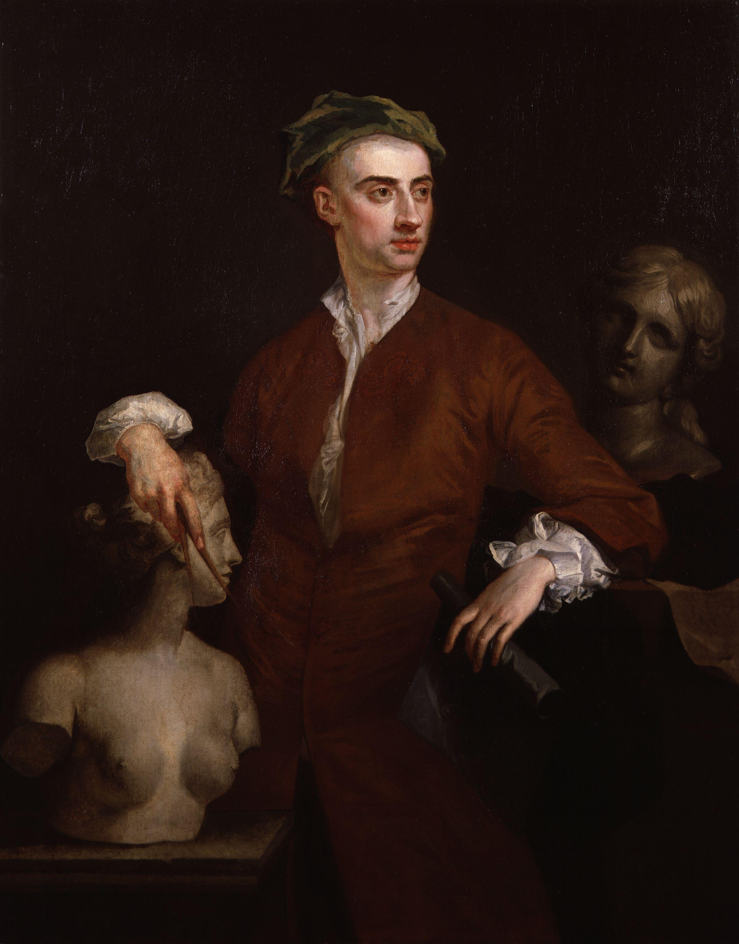 All images in this batch have been confirmed as author died before 1939 according to the official death date listed by the NPG.